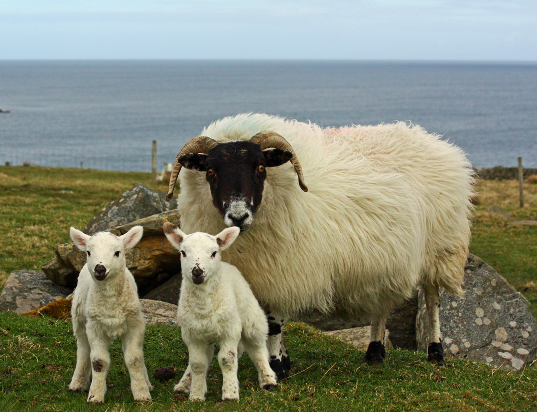 A Blackface ewe with twin Cheviot-cross lambs.